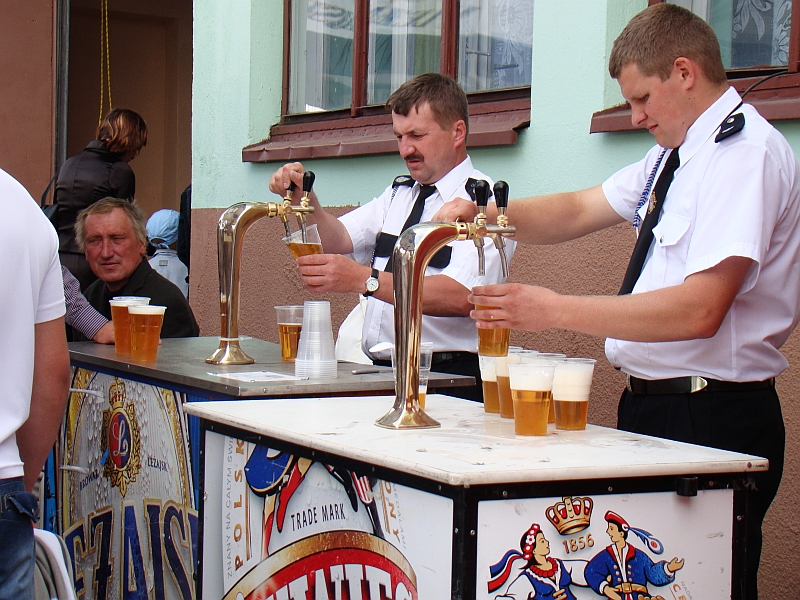 Holiday Folk in Niebieszczany